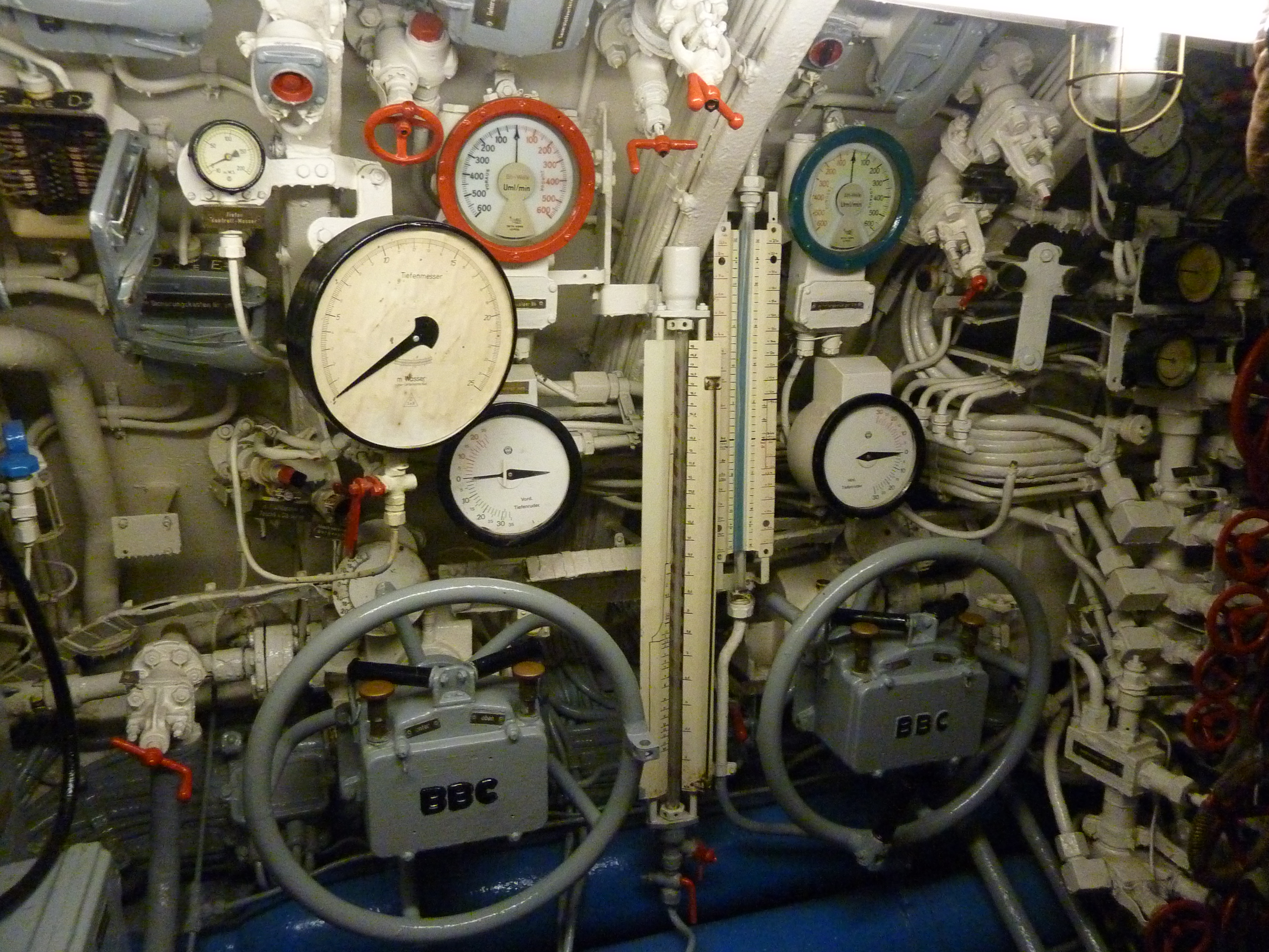 Diving station in the forward control room, U 995